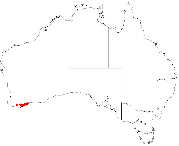 Anigozanthos onycis occurrence data Downloaded from Australasian Virtual Herbarium 12 May 2017